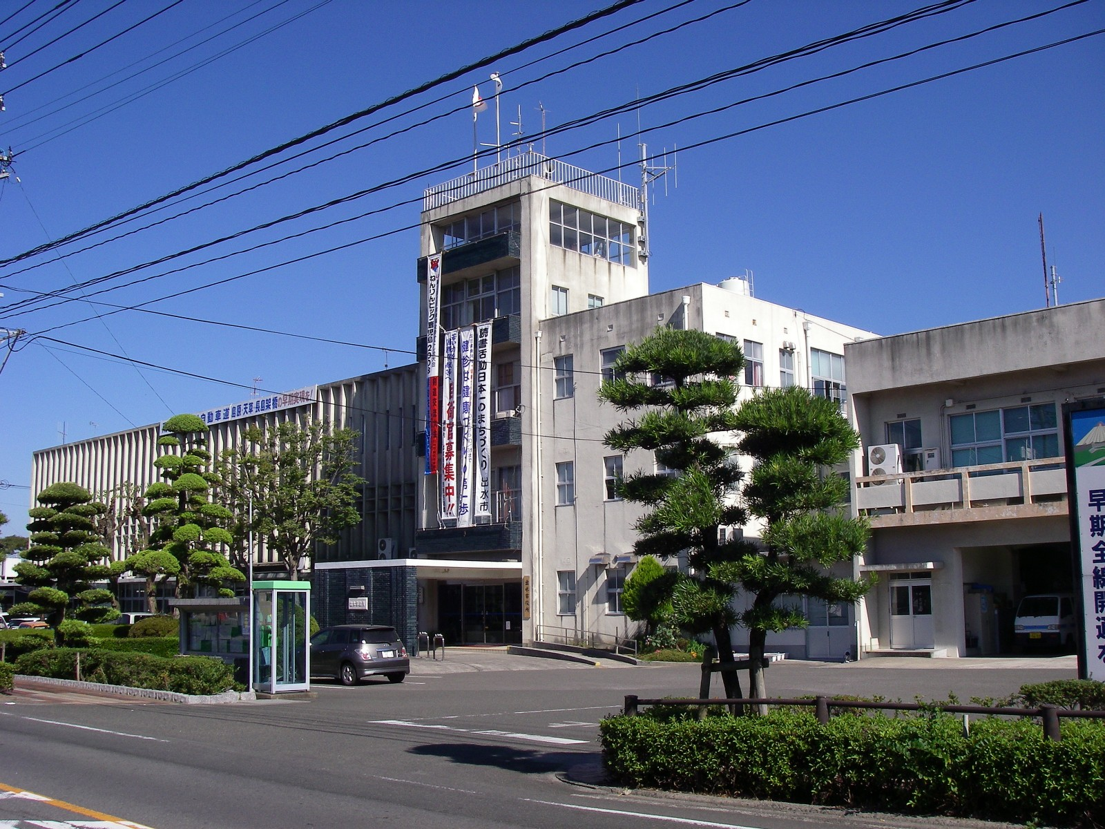 Cito Office of Izumi, Kagoshima, Japan